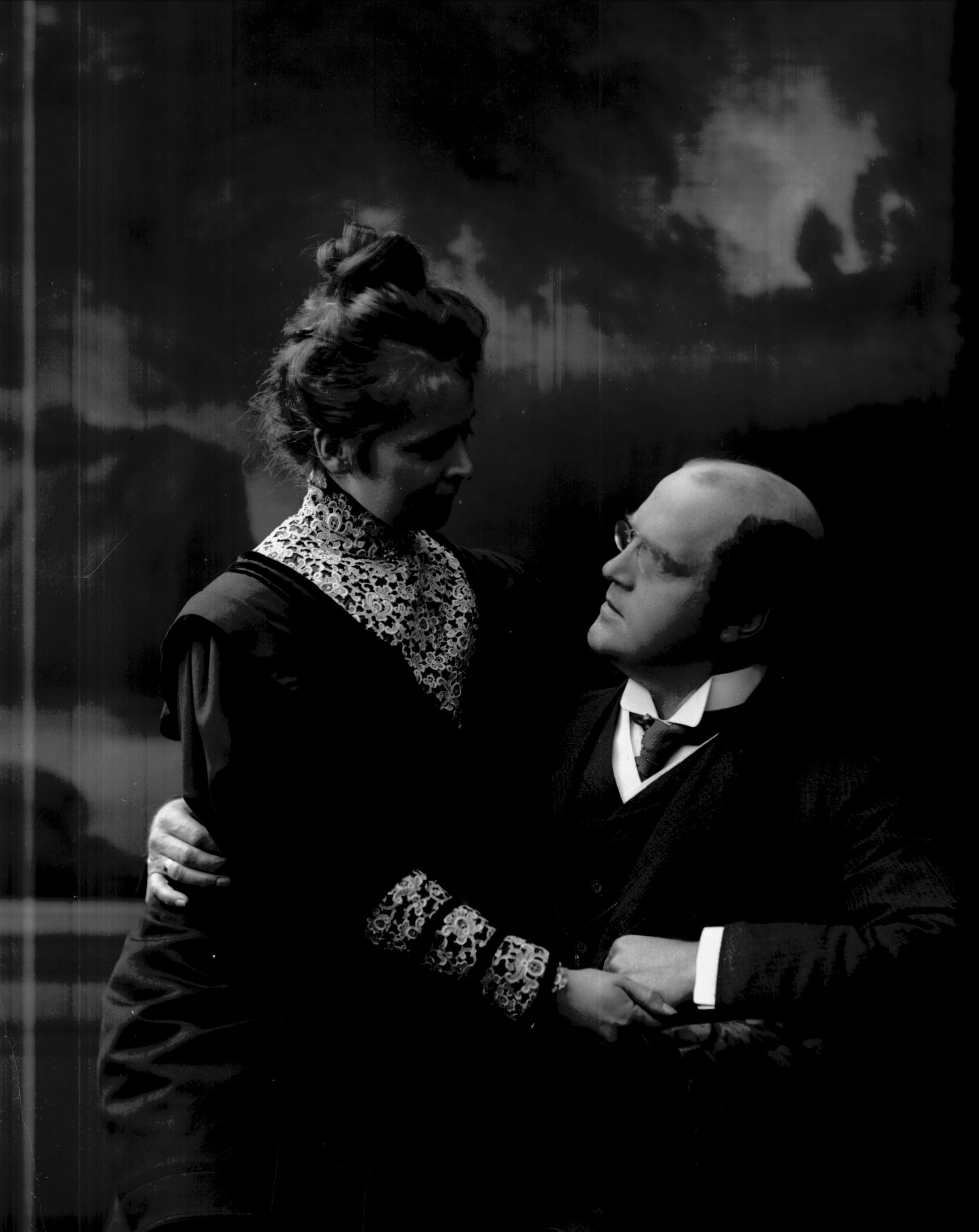 Erling Bjørnson (son of Bjørnstjerne Bjørnson)